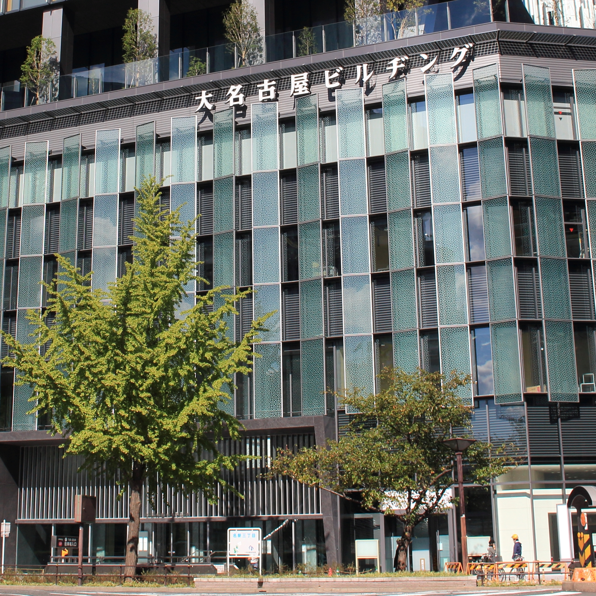 Dai-Nagoya Building under construction, in Meikei, Nakamura, Nagoya, Aichi prefecture, Japan.